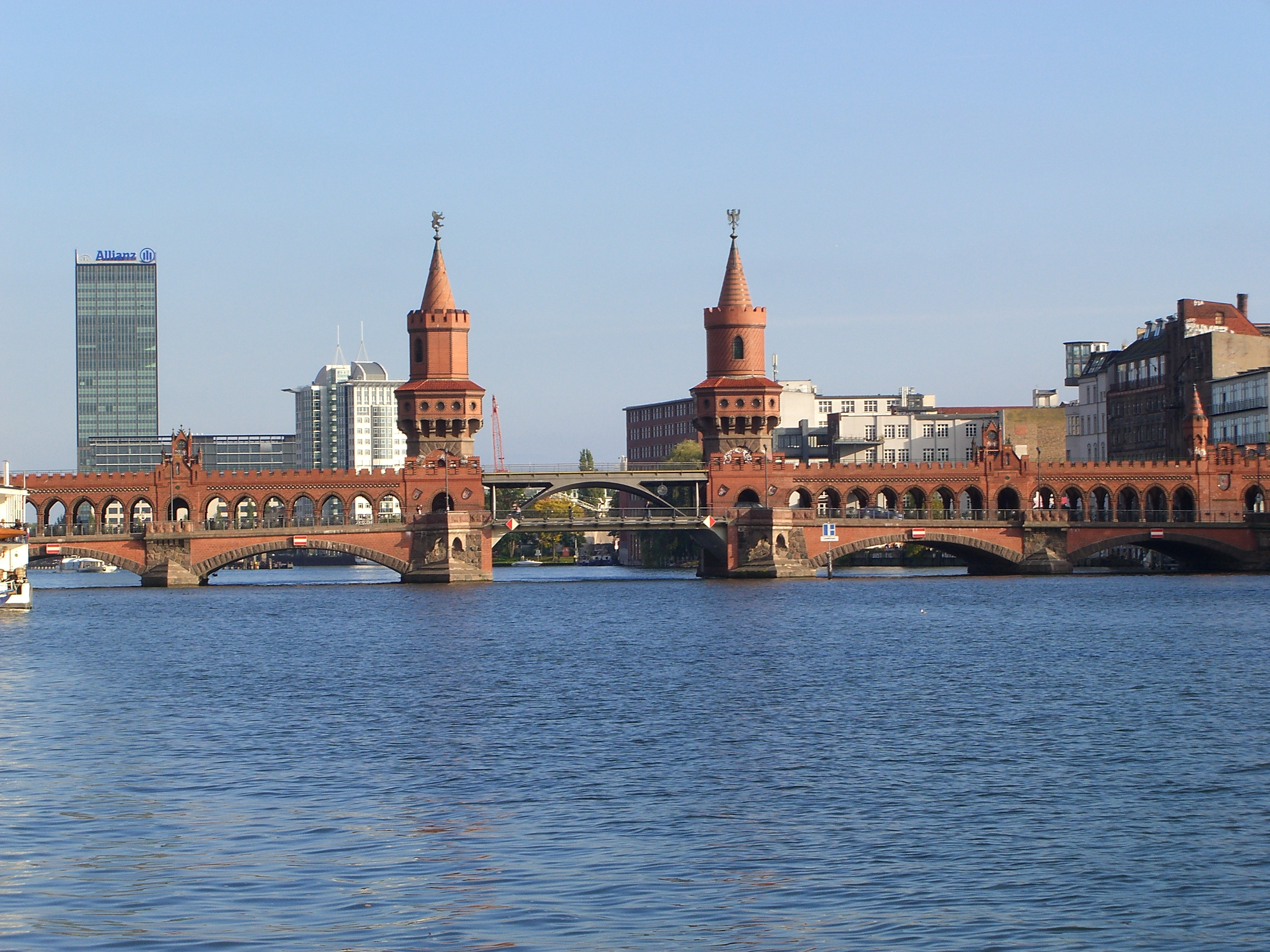 Double-deck bridge Oberbaumbrücke crossing the river Spree in Berlin.